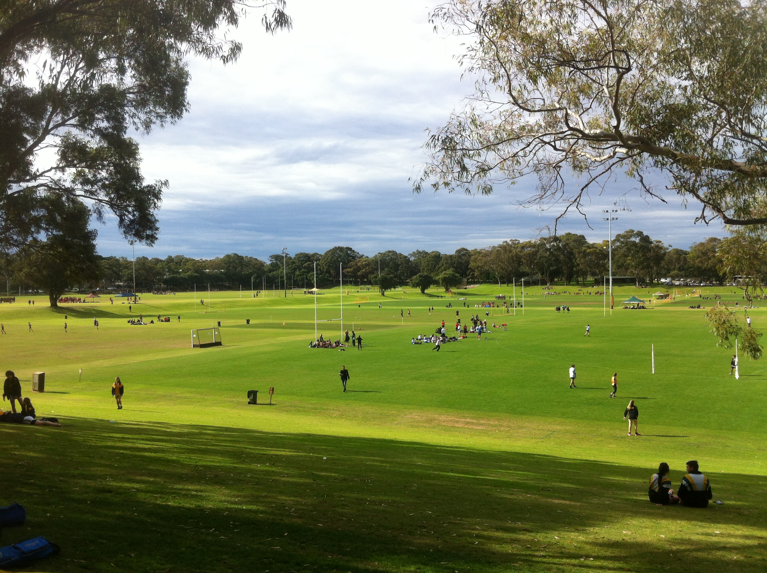 McGillvray Oval UWA Sportpark Countrywek2015